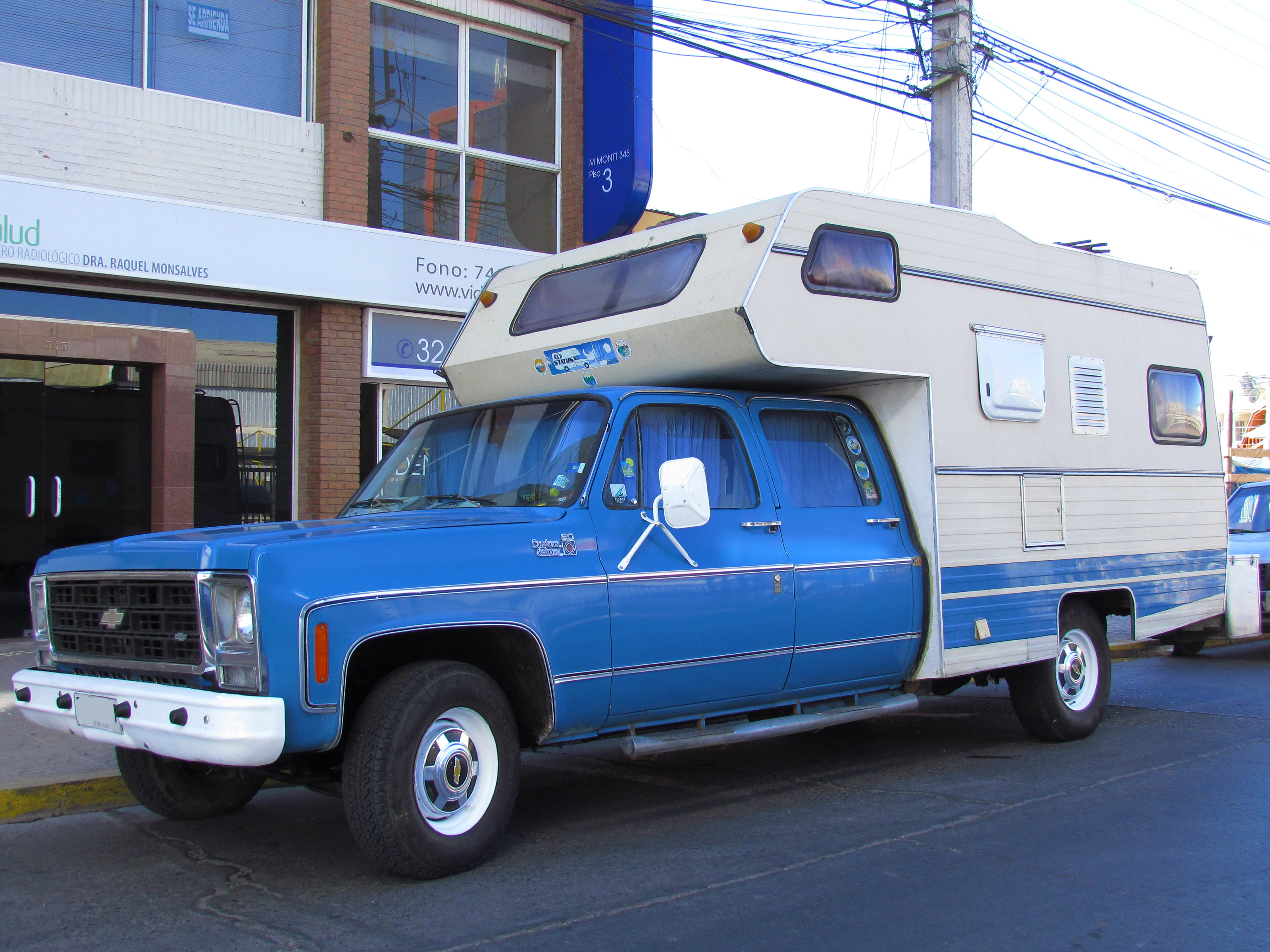 Chevrolet C-20 Custom Deluxe Crew Cab 1979